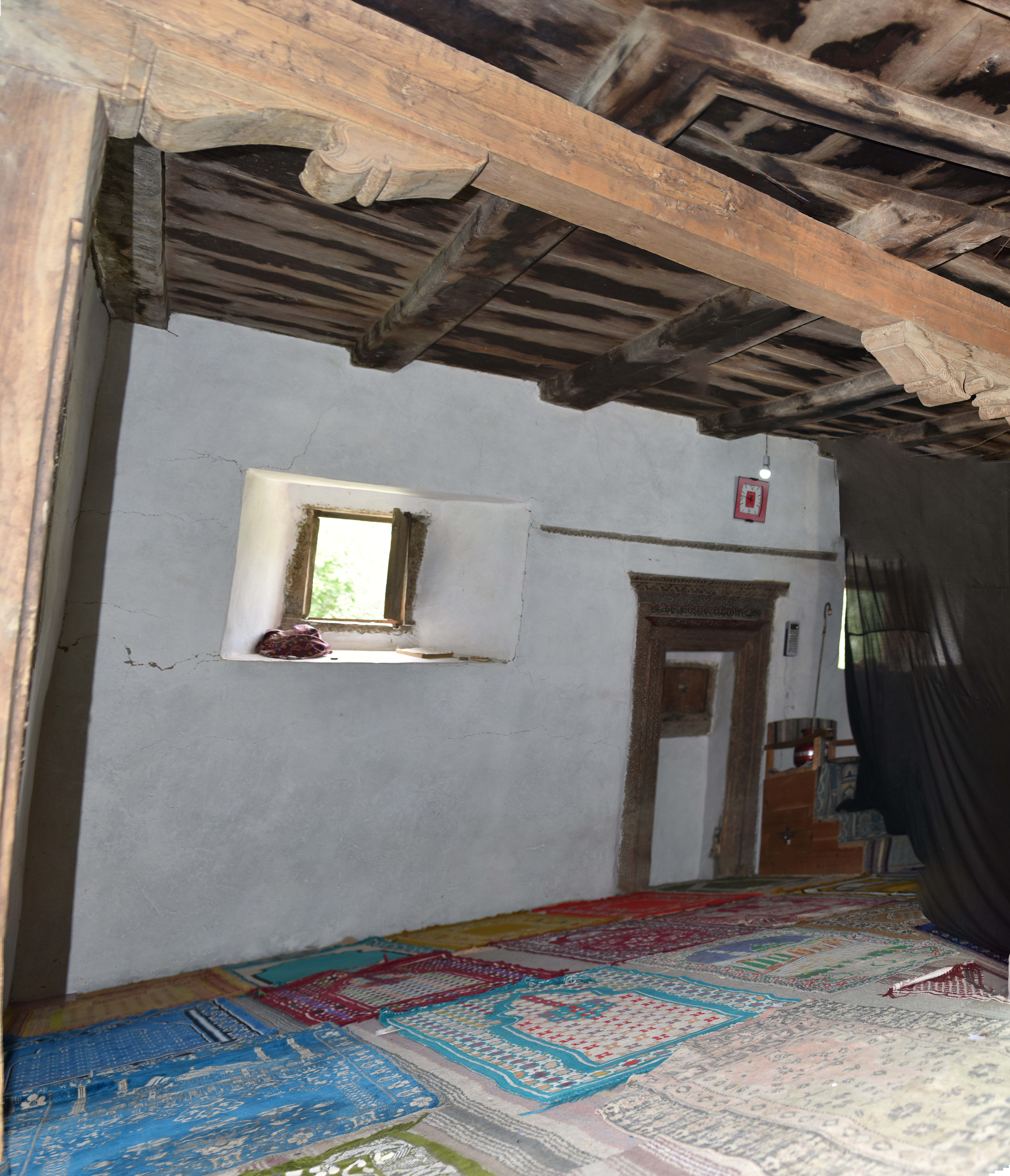 Amburik Mosque This is a photo of a monument in Pakistan identified as the GB-19